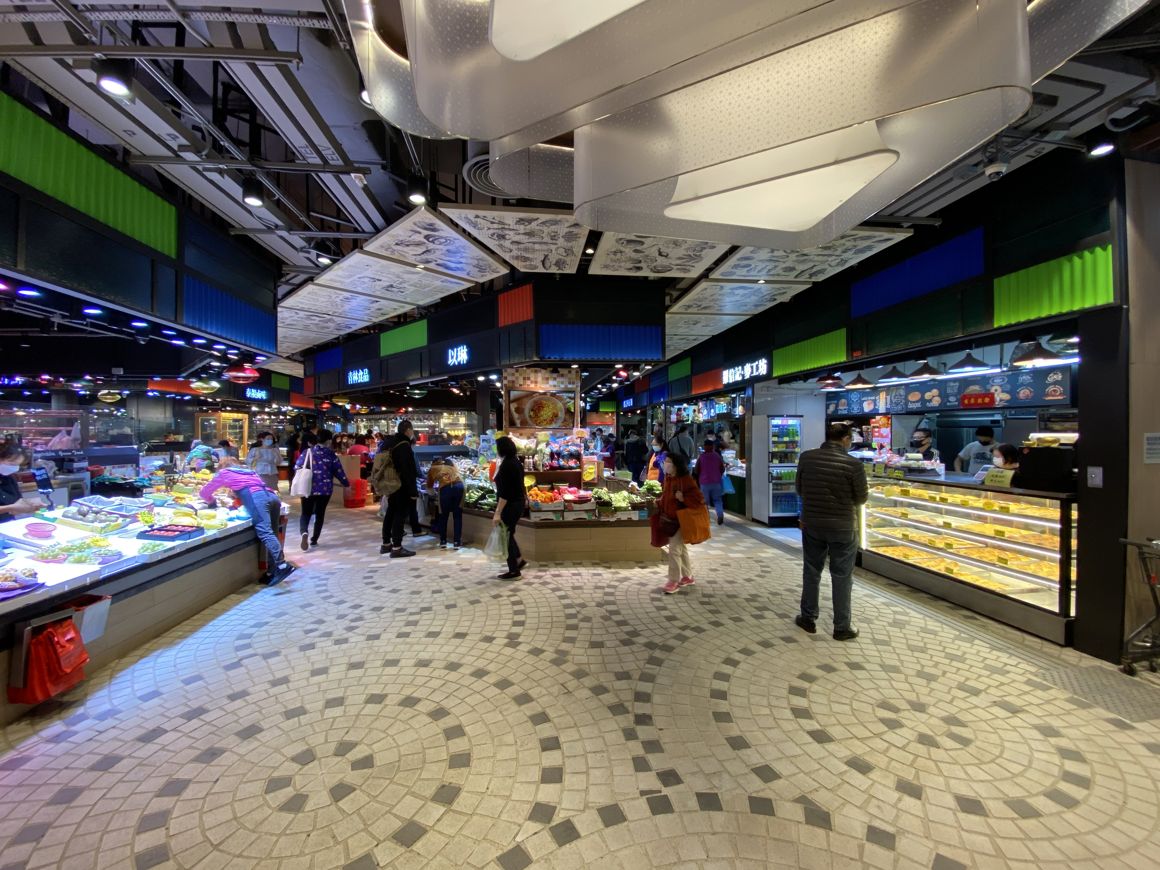 MCP Fresh